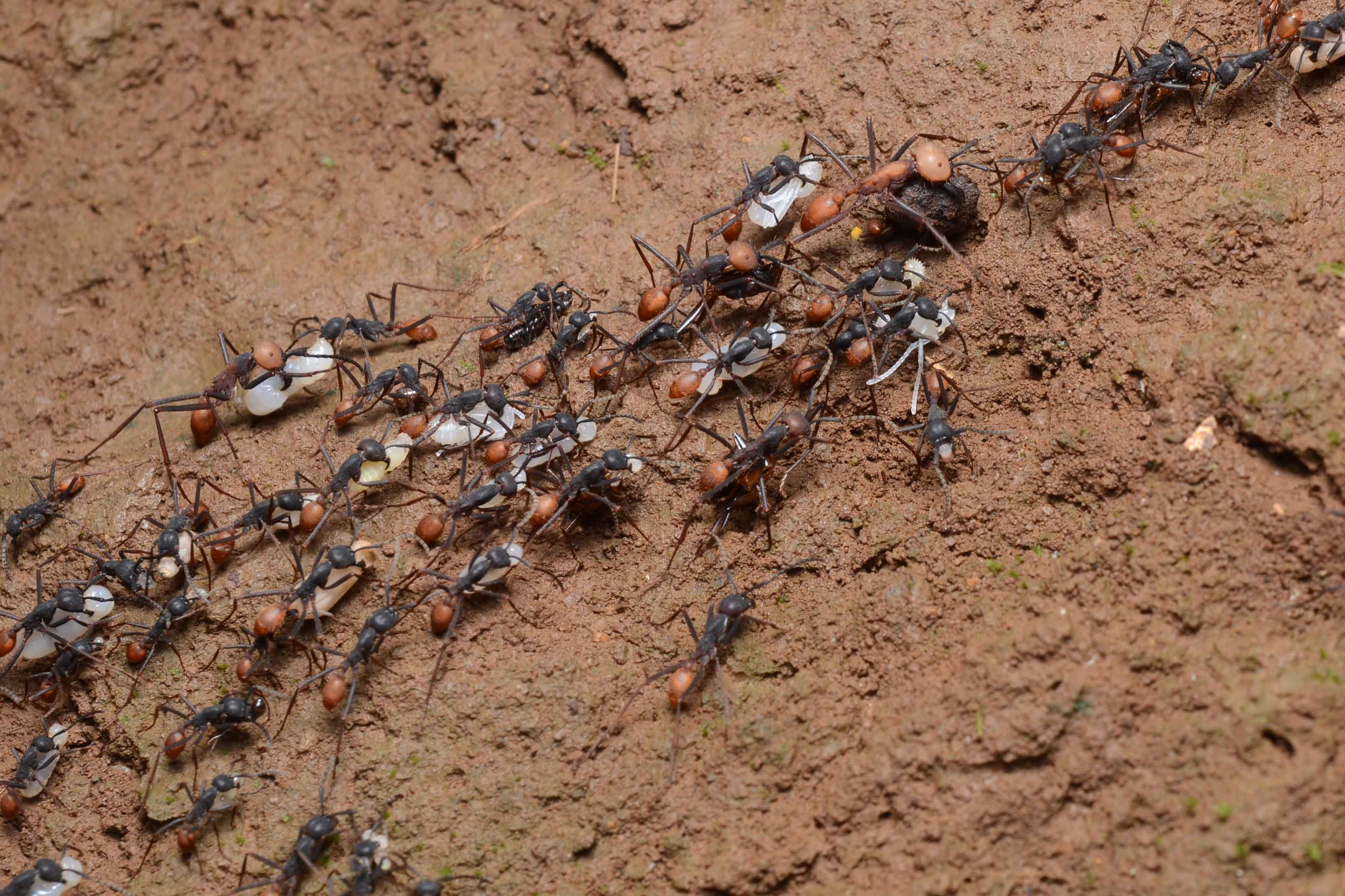 Army ants (Formicidae: Eciton burchellii) with larvae of a raided wasp nest La Selva Biological Station, Heredia, Costa Rica